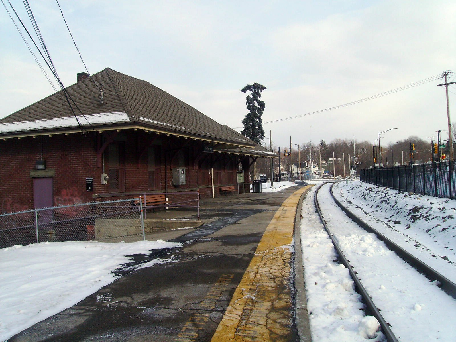 Netcong Train Station facing eastward in Netcong, New Jersey.